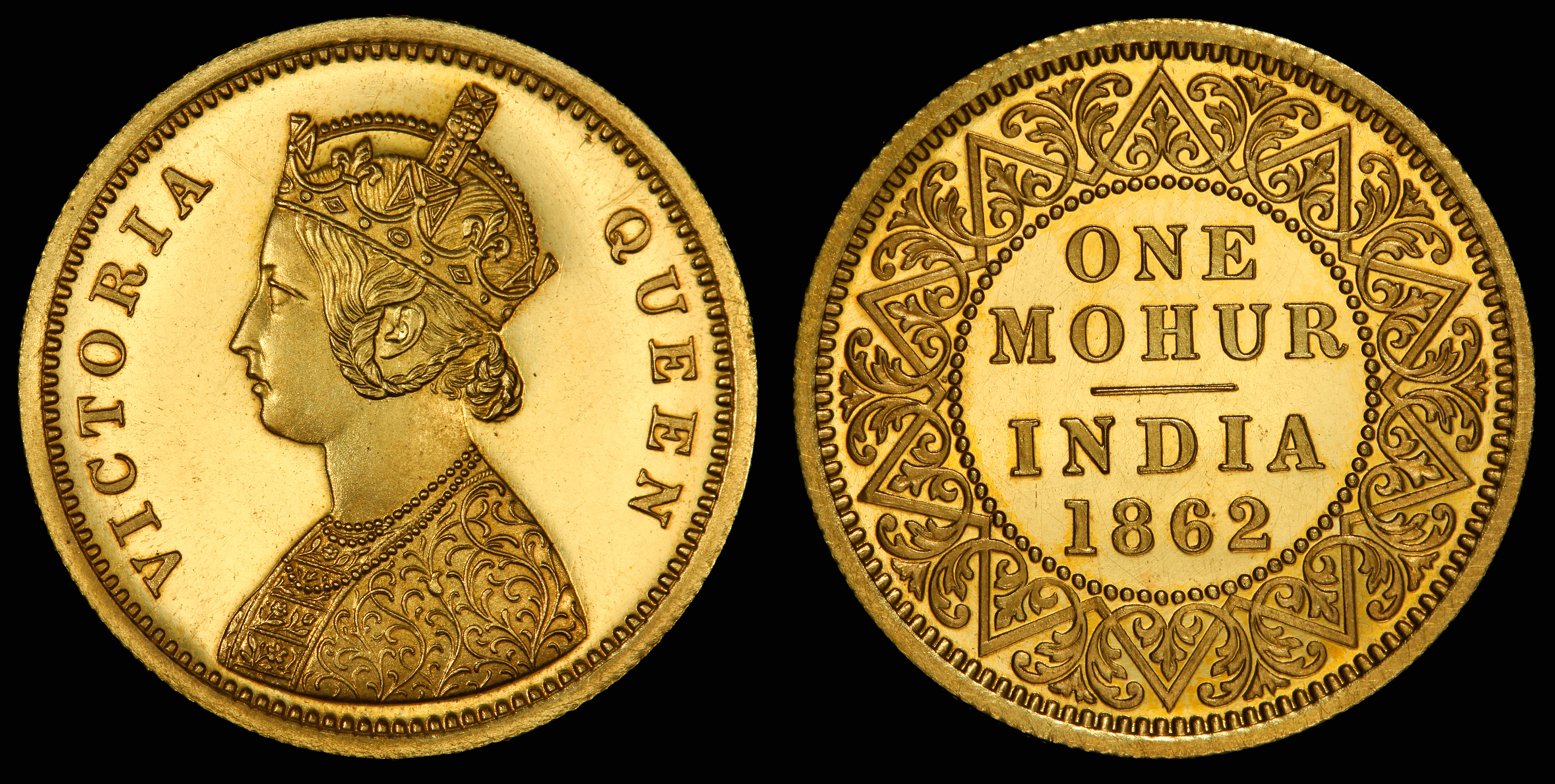 British India, One mohur (1862), depicting Queen Victoria.